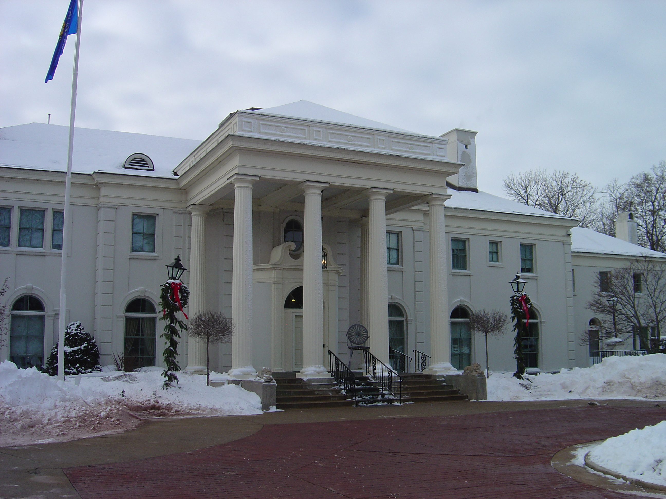 Wisconsin Governor's Mansion front entrance taken in Winter 2010.